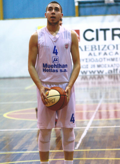 Stratos Iordanoglou prepares to shoot a free throw. I attended a match of the U18 ESKANA Championship and took the photo.